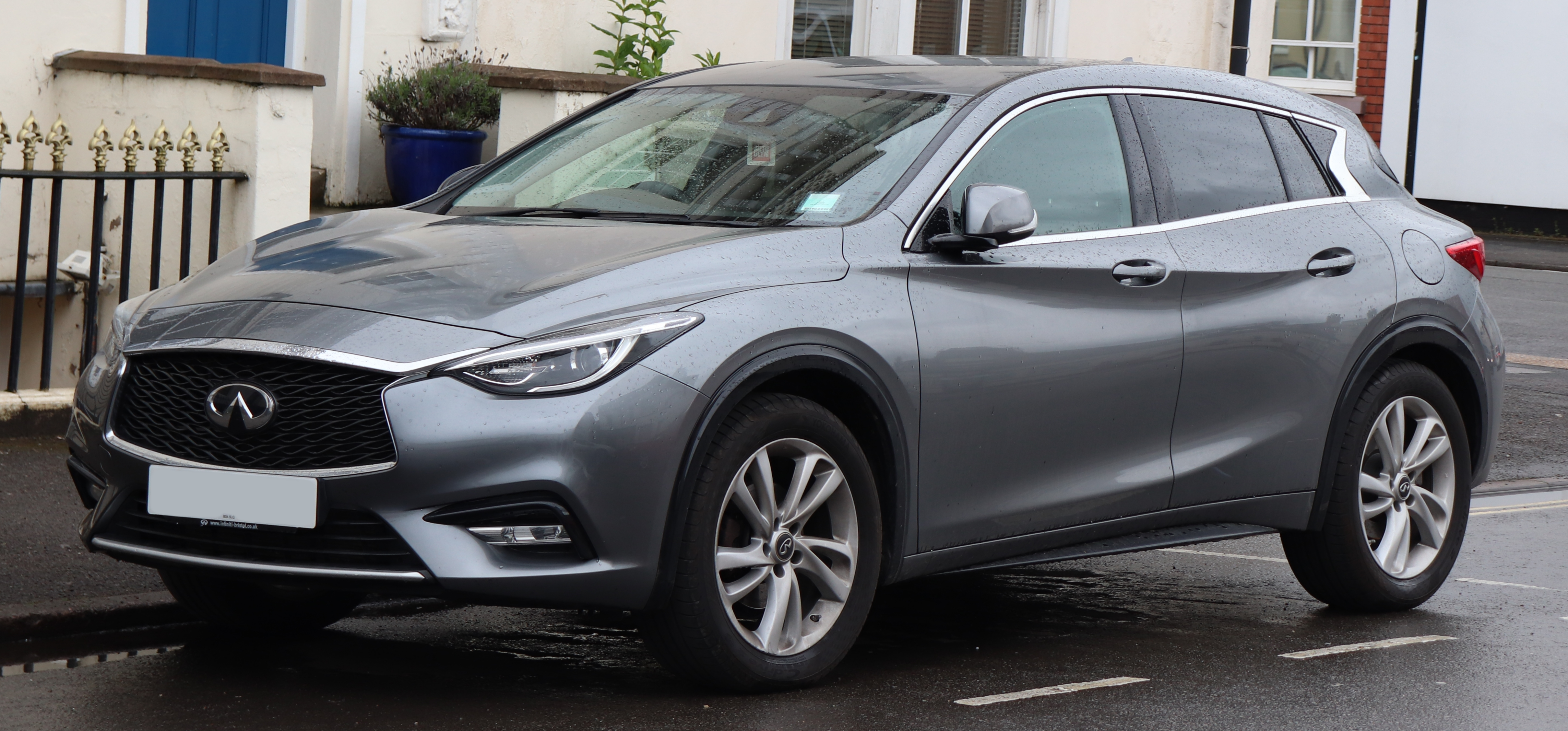 2017 Infiniti Q30 SE Diesel 1.5 Front Taken in Leamington Spa